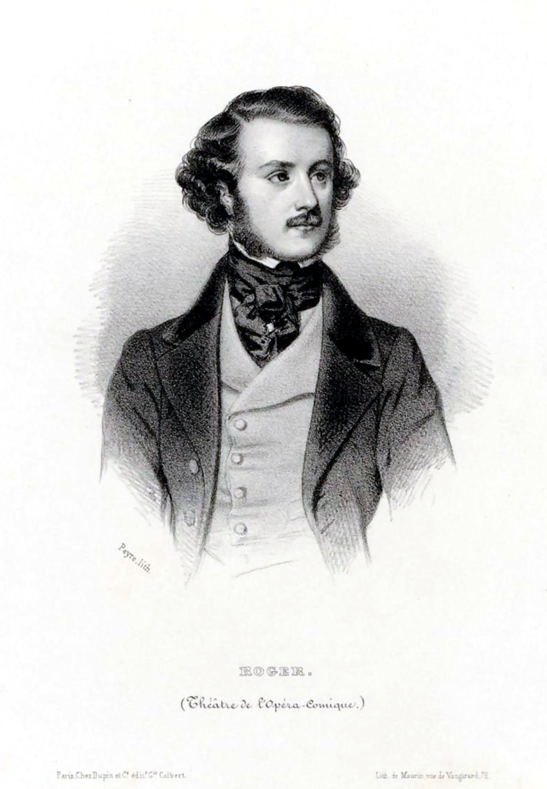 Lithograph by Jules Peyre (1838)